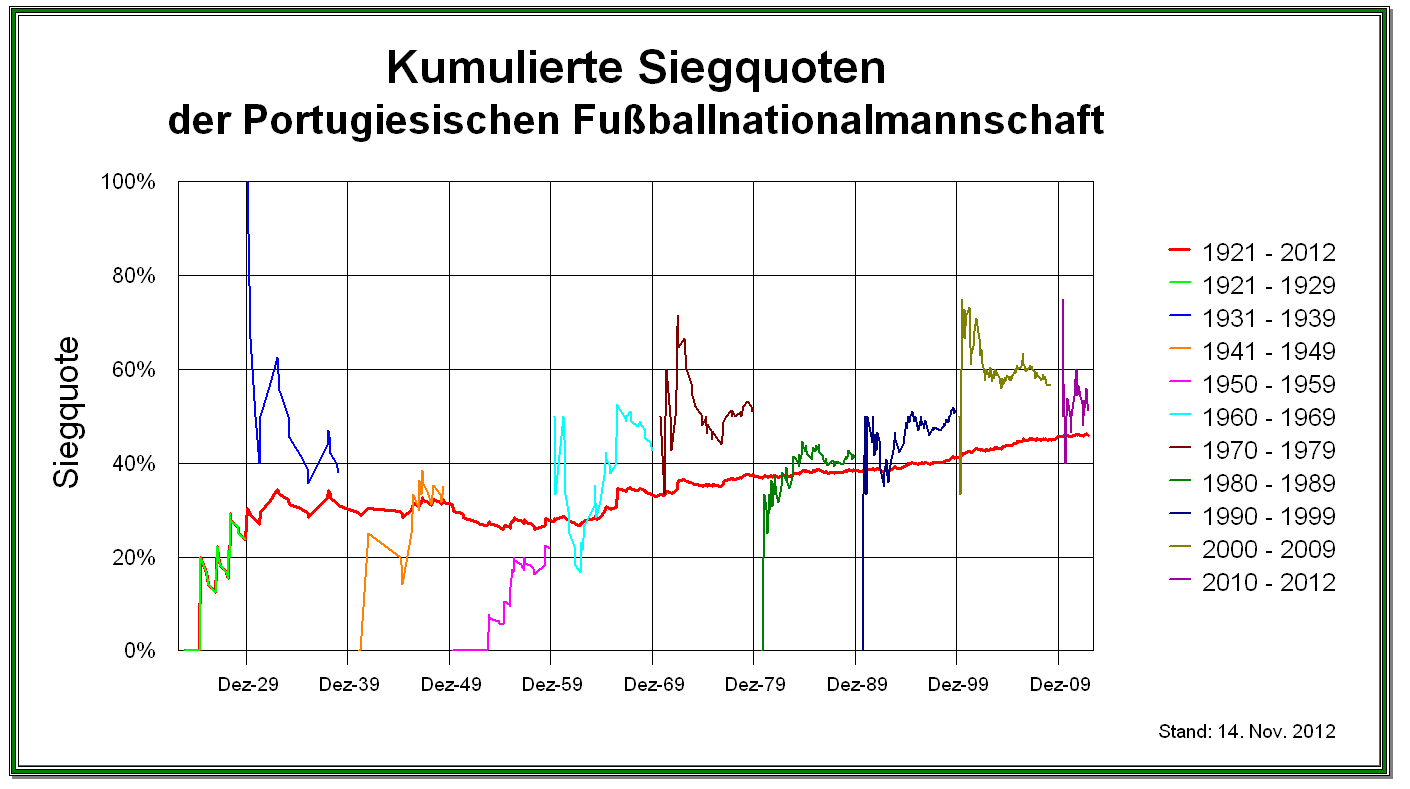 Accumulated win rate of Portugal national football team from 1921 to 2012